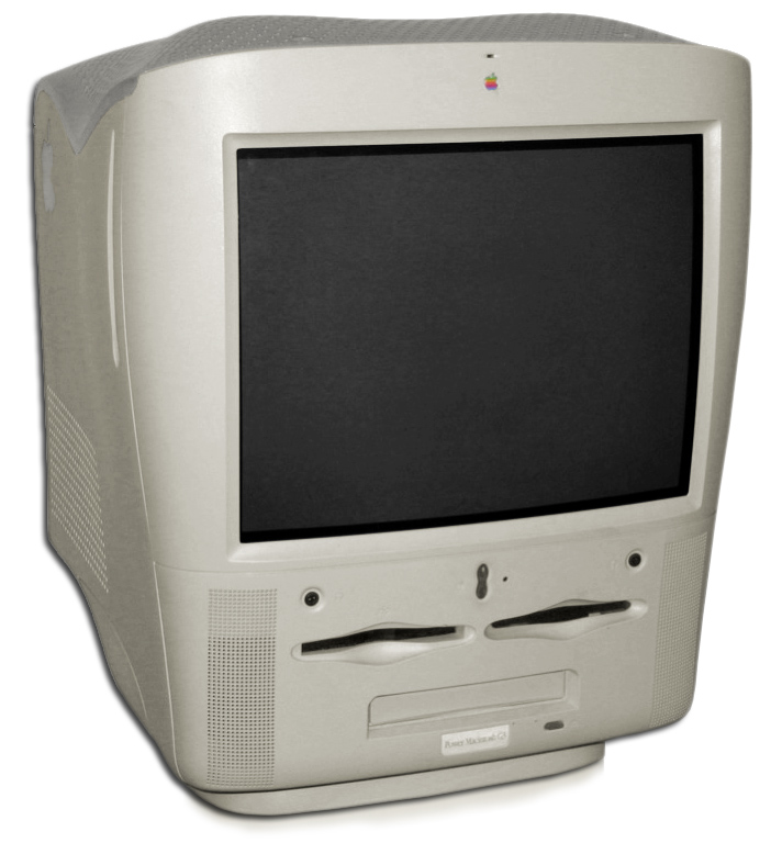 color corrected and isolated version of File:Power_Mac_G3_AIO.jpg